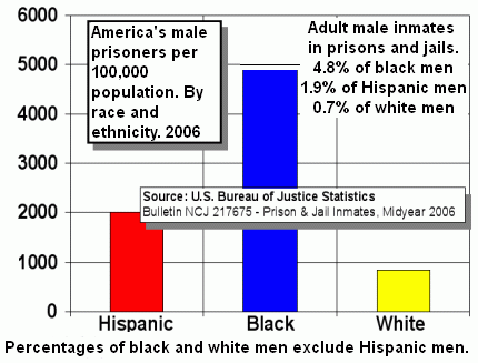 Rate of U.S. imprisonment per 100,000 population of adult males by race and ethnicity in 2006. Jails and prisons. On June 30, 2006, an estimated 4.8% of black non-Hispanic men were in prison or jail, compared to 1.9% of Hispanic men of any race, and 0.7% of white non-Hispanic men. Source of data for chart: Prison and Jail Inmates at Midyear 2006 (NCJ 217675). U.S. Bureau of Justice Statistics. The percentages are for adult males, and are from page 1 of the PDF file. "On June 30, 2006, an estimated 4.8% of black men were in prison or jail, compared to 1.9% of Hispanic men and 0.7% of white men. More than 11% of black males age 25 to 34 were incarcerated. Black women were incarcerated in prison or jail at nearly 4 times the rate of white women and more than twice the rate of Hispanic women."